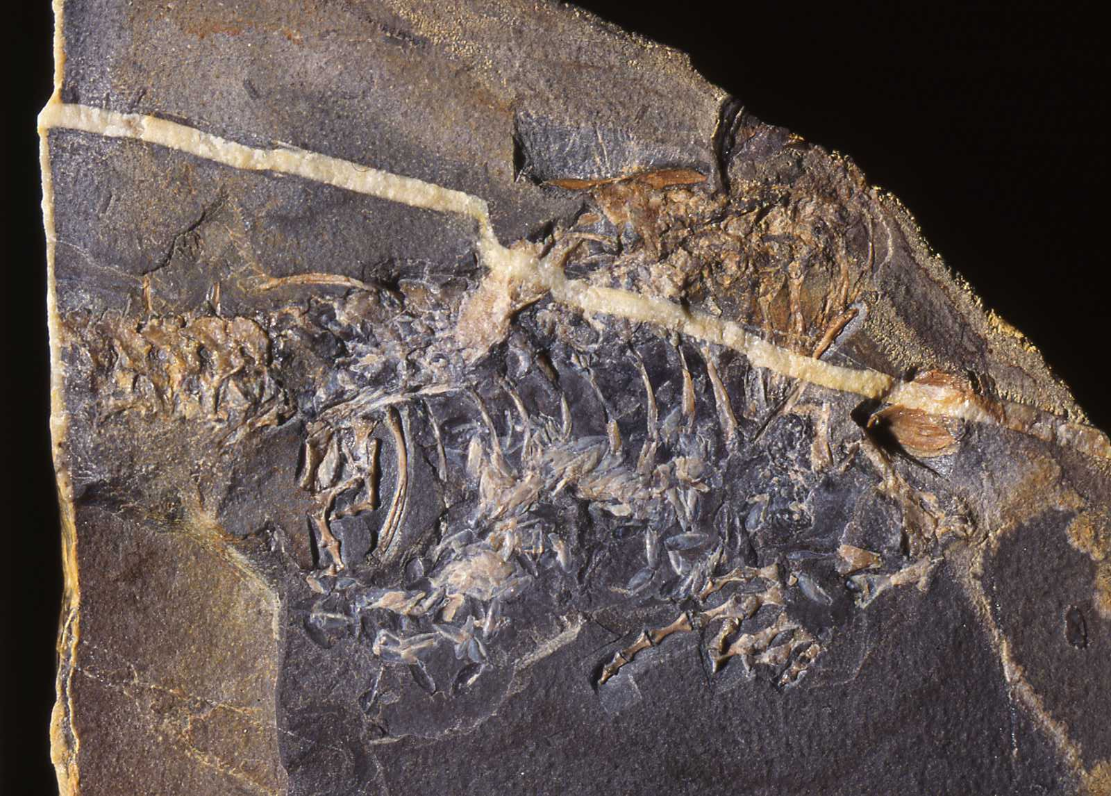 The holotype of Casineria Kiddi from the Lower Carboniferous of Gullane, East Lothian, Scotland, UK